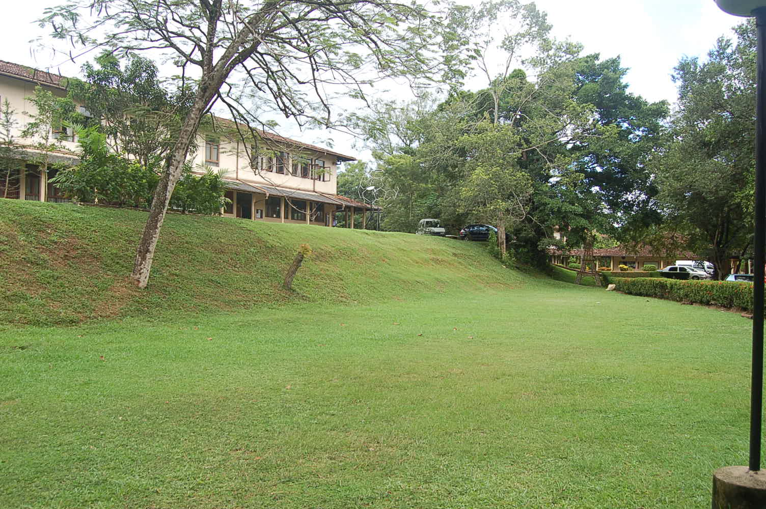 University of Sri Jayewardenepura, Nugegoda, Sri Lanka